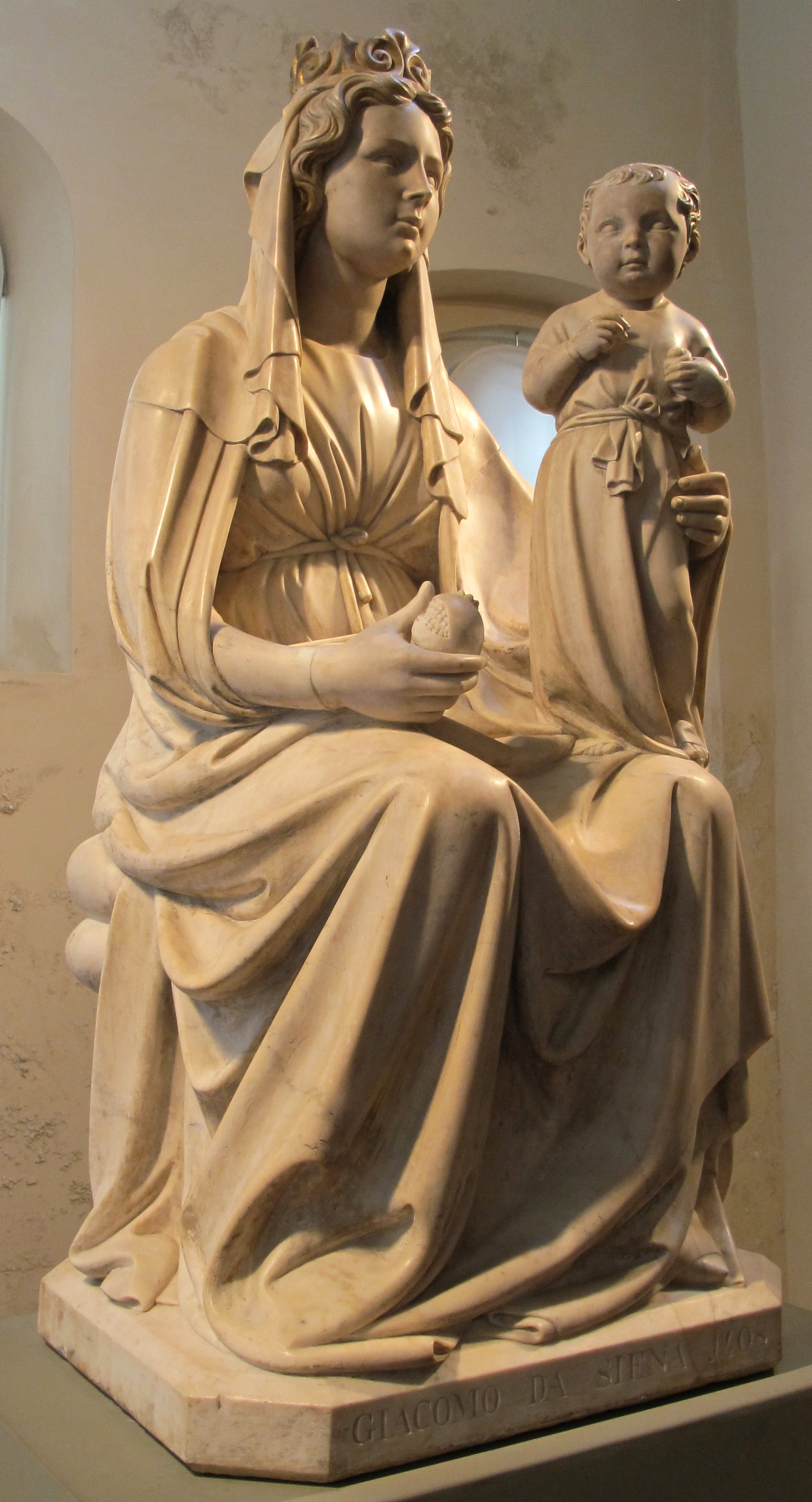 This is a photo of a monument which is part of cultural heritage of Italy.